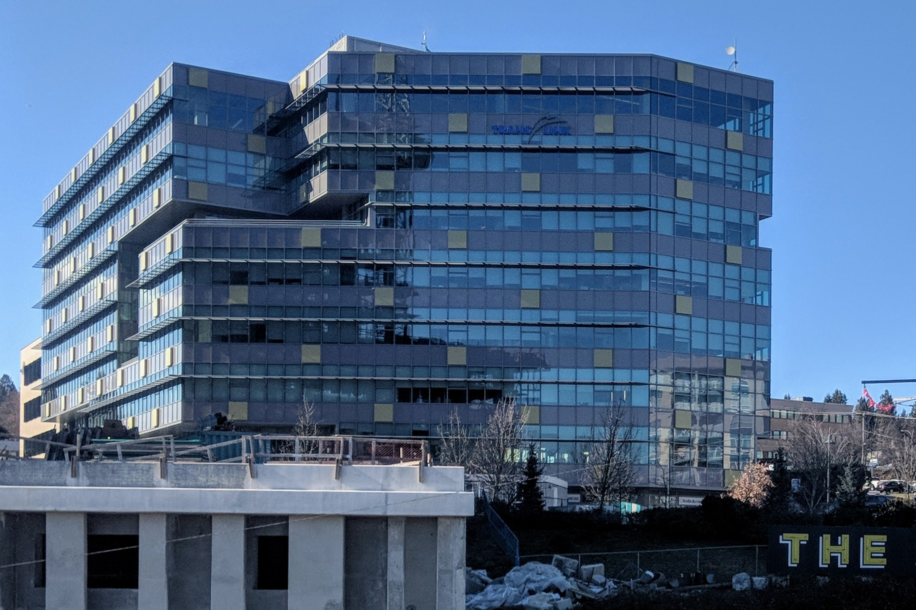 TransLink's head office is located in New Westminster, British Columbia. Looking west from the platform level at Sapperton station.